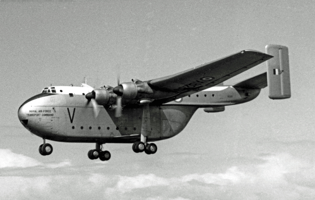 Blackburn Beverley C.1 XB289 of No. 47 Squadron RAF giving a display at Blackpool (Squires Gate) Airport